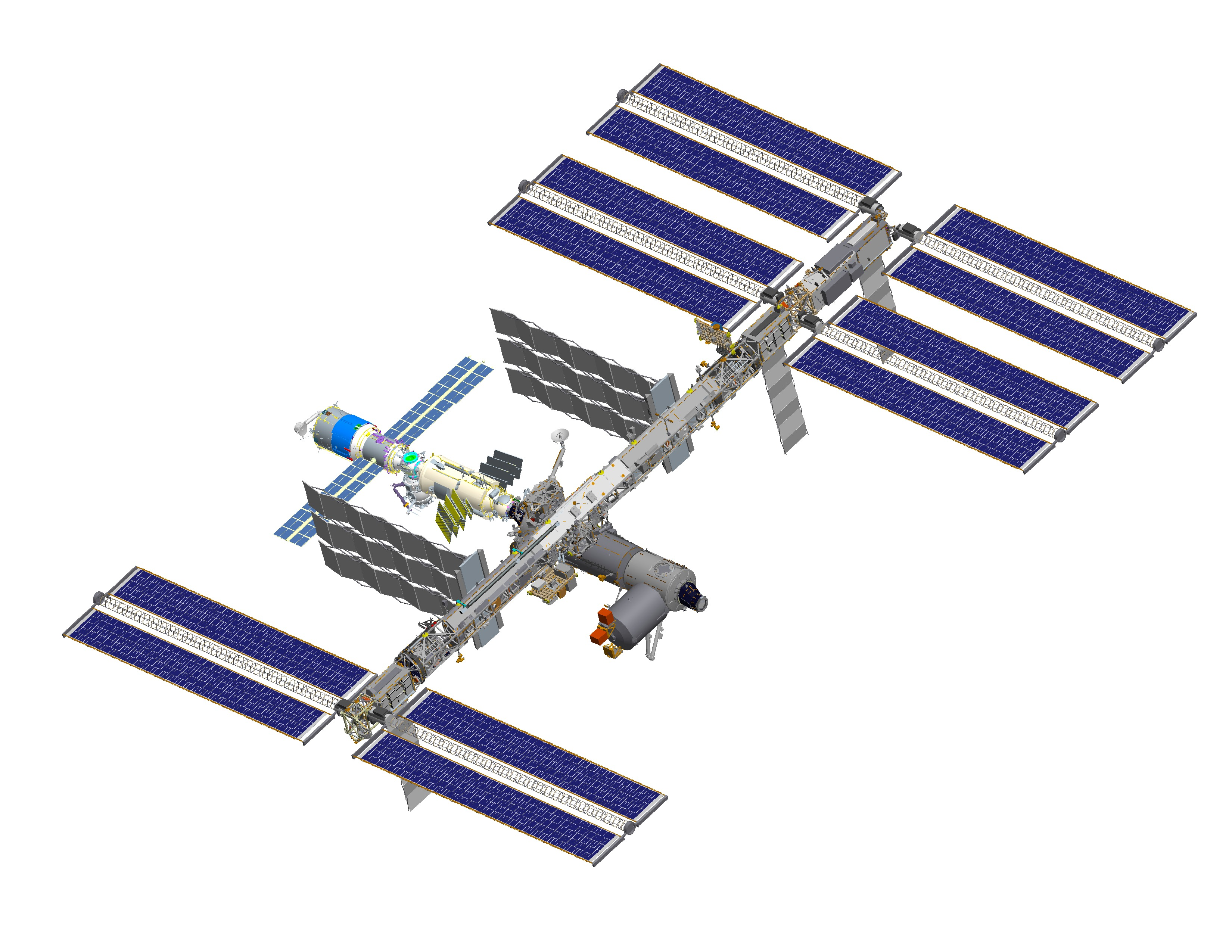 Computer-generated artist's rendering of the International Space Station after flight STS-122/1E.